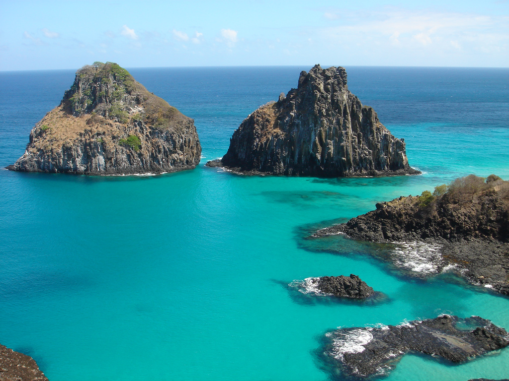 Dois Irmãos - Fernando de Noronha, Brazil.